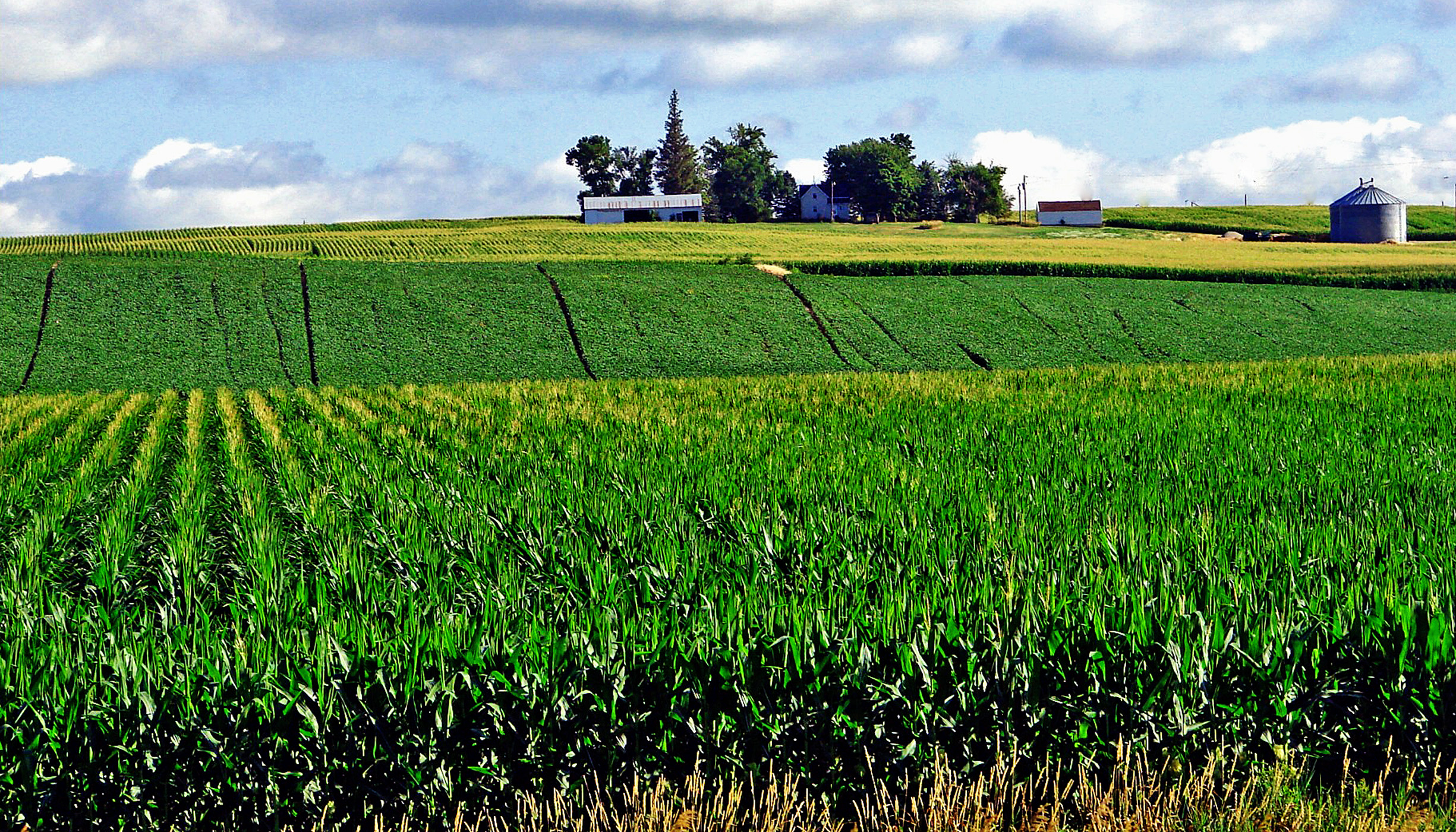 (1 in a multiple picture album) This is one of the few small farm homesteads to see in Northwest Iowa. Fifty years ago this farmer would have shared a section of land (640 acres) with three other families. Now he must farm the who section in order to make a profit.